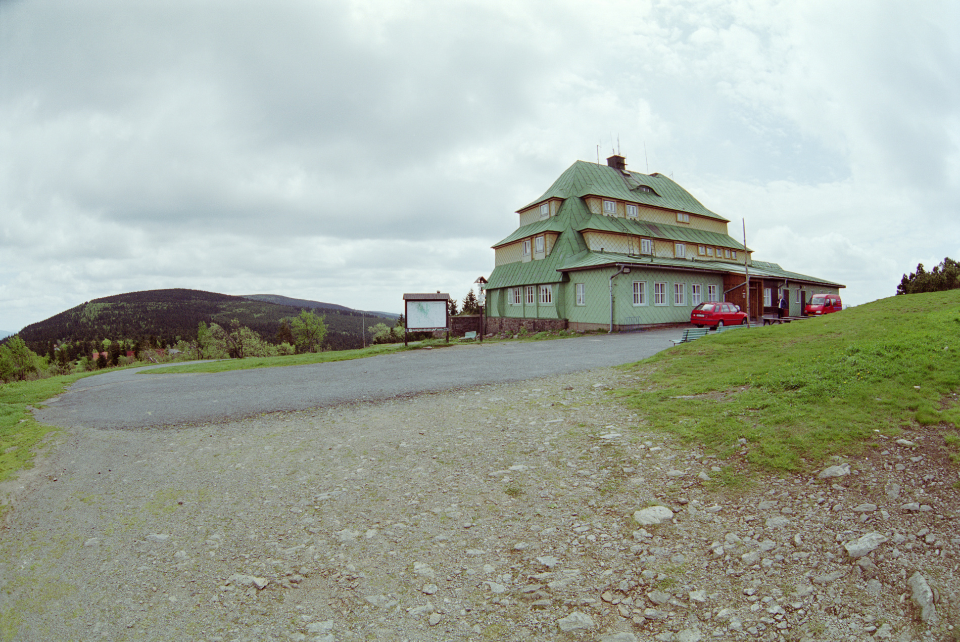 own picture, taken in spring 2006 Masarykova chata in Orlické Hory in Czech Republic in the background the mountains Malá and Velká Deštná